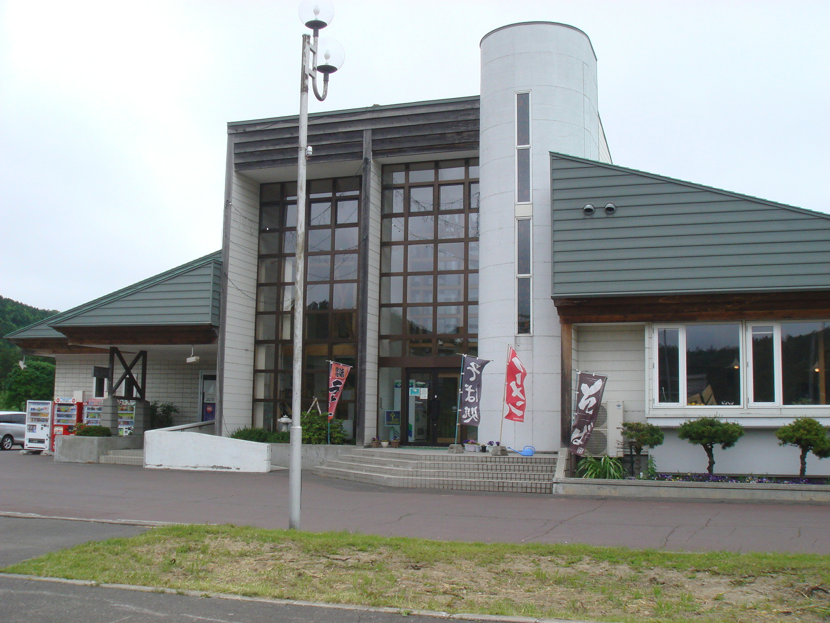 Michinoeki(Roadside Station) Otoineppu (Otoineppu, Hokkaidō)